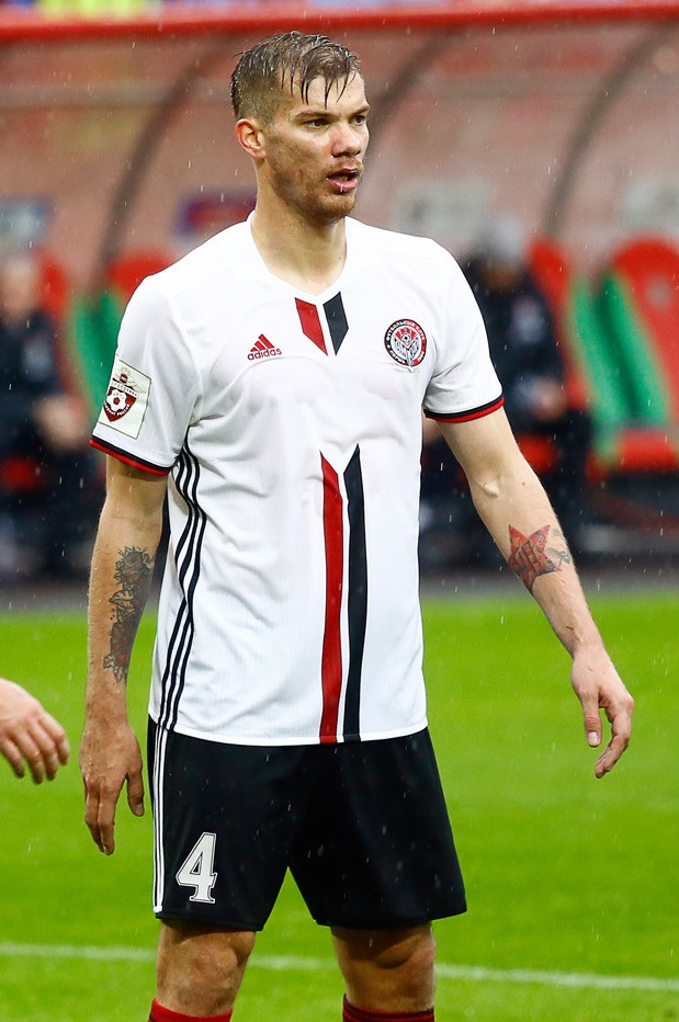 Nikolai Zaytsev with FC Amkar Perm in a game against FC Lokomotiv Moscow.